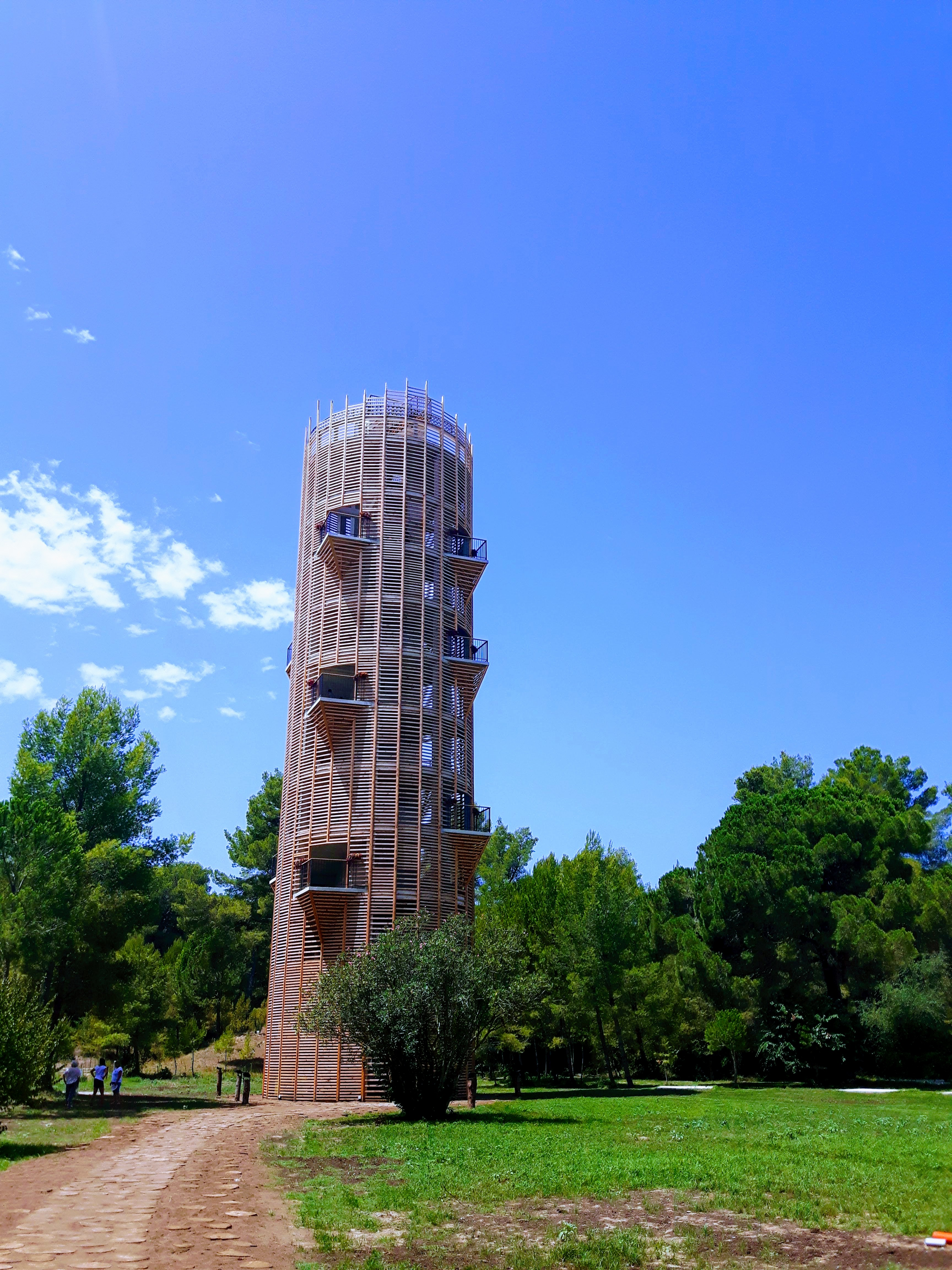 Divjakë-Karavasta National Park - the Wath tower